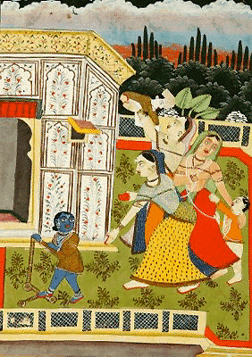 Mother Yasoda, Rohini Ma, Krsna and Balarama Jaipur, c. 1850